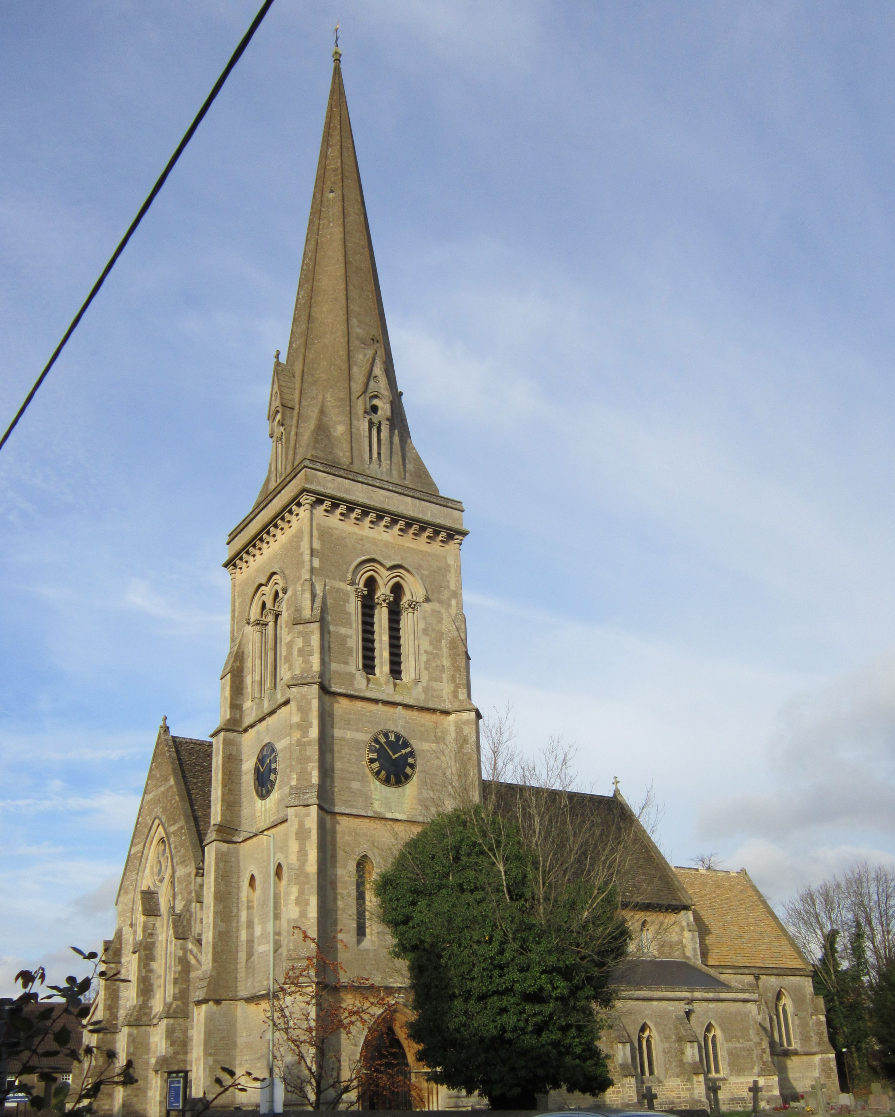 St. Paul's church, Chippenham